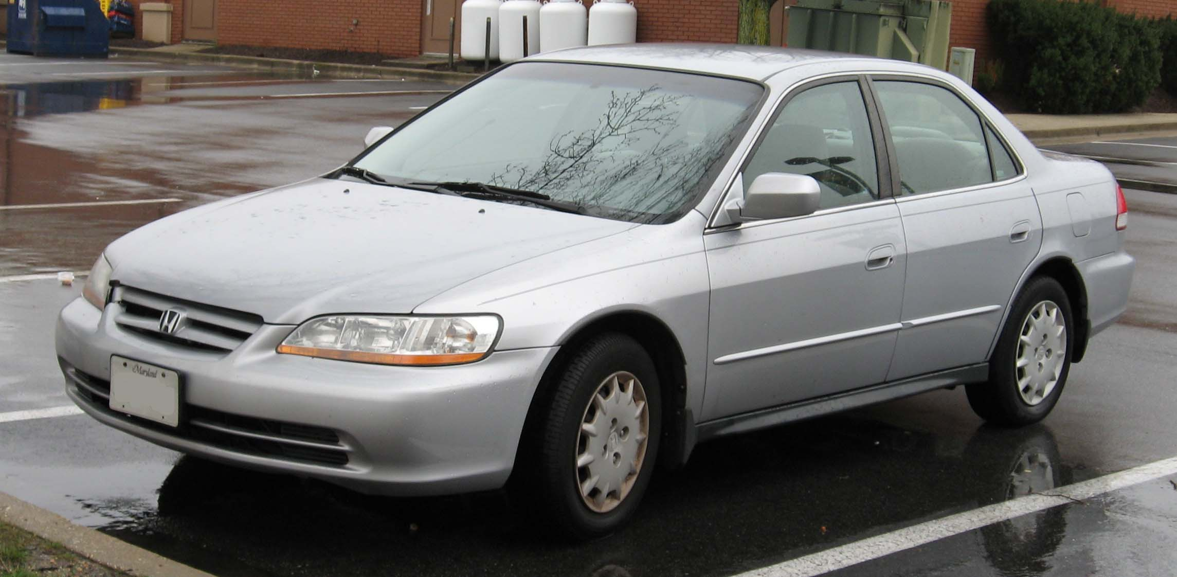 2001-2002 Honda Accord photographed in USA.